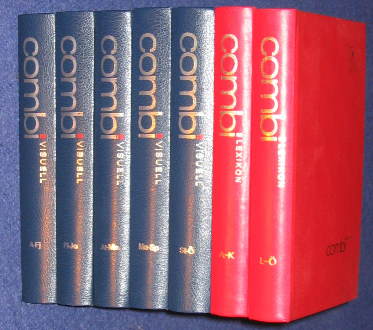 Book covers. "Combi Visuell" and "Combi Lexikon", a Swedish encyclopedia from around 1970.